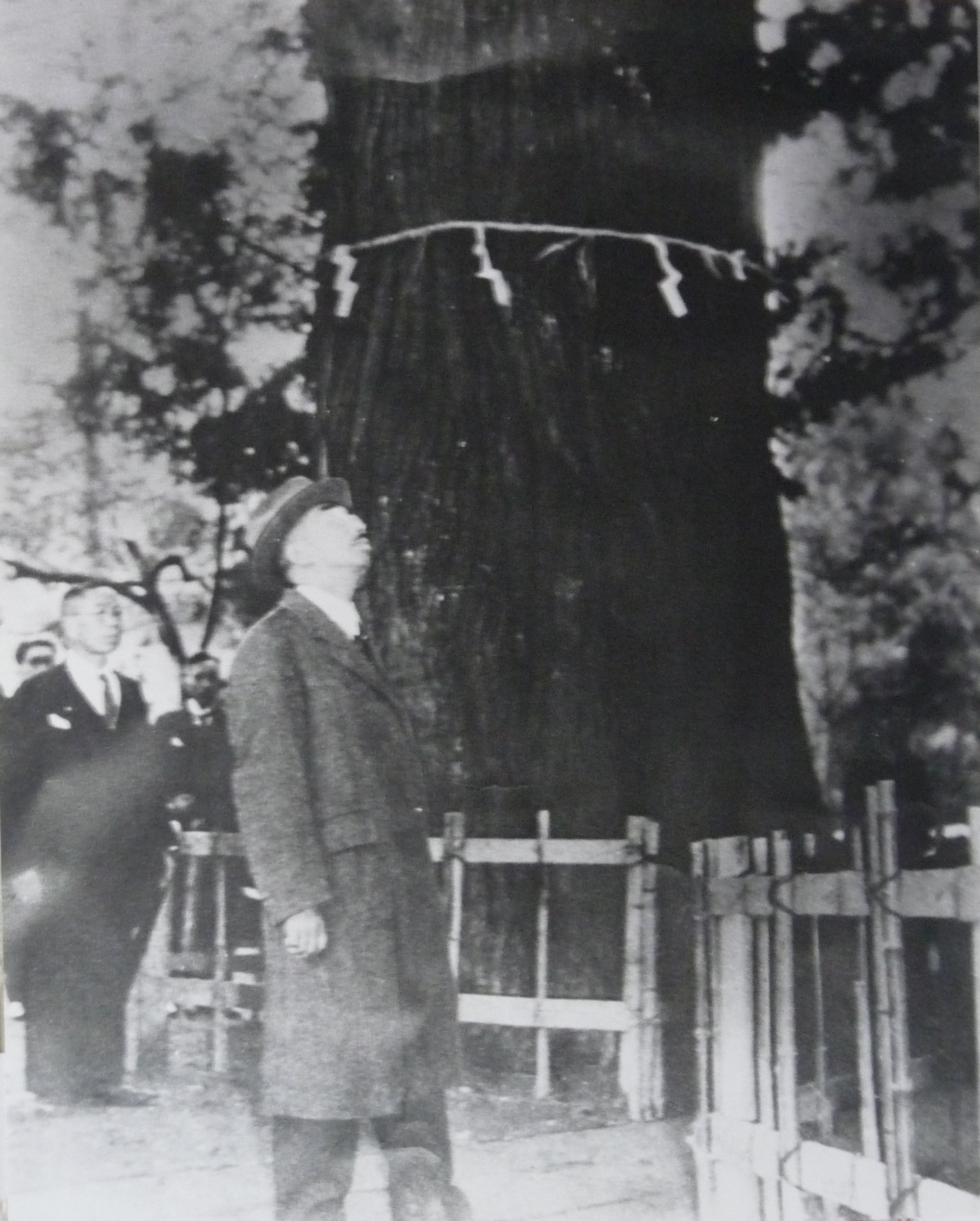 This is the photograph of Shōwa tennō gaze at 栢野大杉 (Great sugi of Kayano). The copyright holder of this photograph is not known. This photo was taken on 27, October 1947. It is deemed that this photo was taken by cameraman from Imperial Household Agency (formerly 宮内府), or from Hokkoku Shibun (北國新聞, local news paper in Ishikawa Prefecture) or from nearby the location photographed, however this photo has not been in public release until up loaded herein Wikimedia Commons. KEEP, NOT Delete, this photo on herein Wikimedia Commons as the heritage of Japan for the memory of Emperor Shōwa, unless the copyright holder claim the copyright with evidential material(s). (Above statement in Japanese; この写真は「栢野大杉を見る昭和天皇」です。この写真の著作権者は不明です。写真は1947年10月27日に撮影されました。写真は当時の宮内府（宮内庁の前身）、または北國新聞 、または地元のカメラマンによって撮影されたと考えられますが、今まで公開された事は有りません。しかるべき証拠物をともなって著作権者が著作権を主張しない限り、ここに削除せず保存してください。この写真は昭和天皇への記憶として日本の遺産です。)